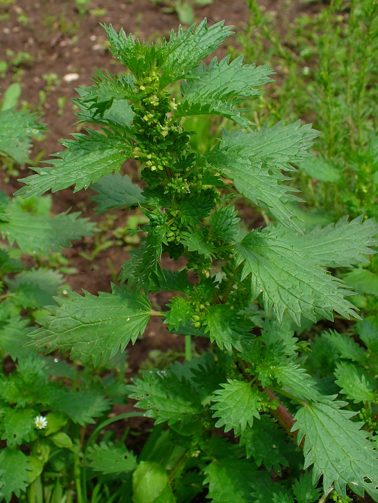 Urtica urens, Urticaceae, Annual Nettle, Dwarf Nettle, Small Nettle, inflorescences.